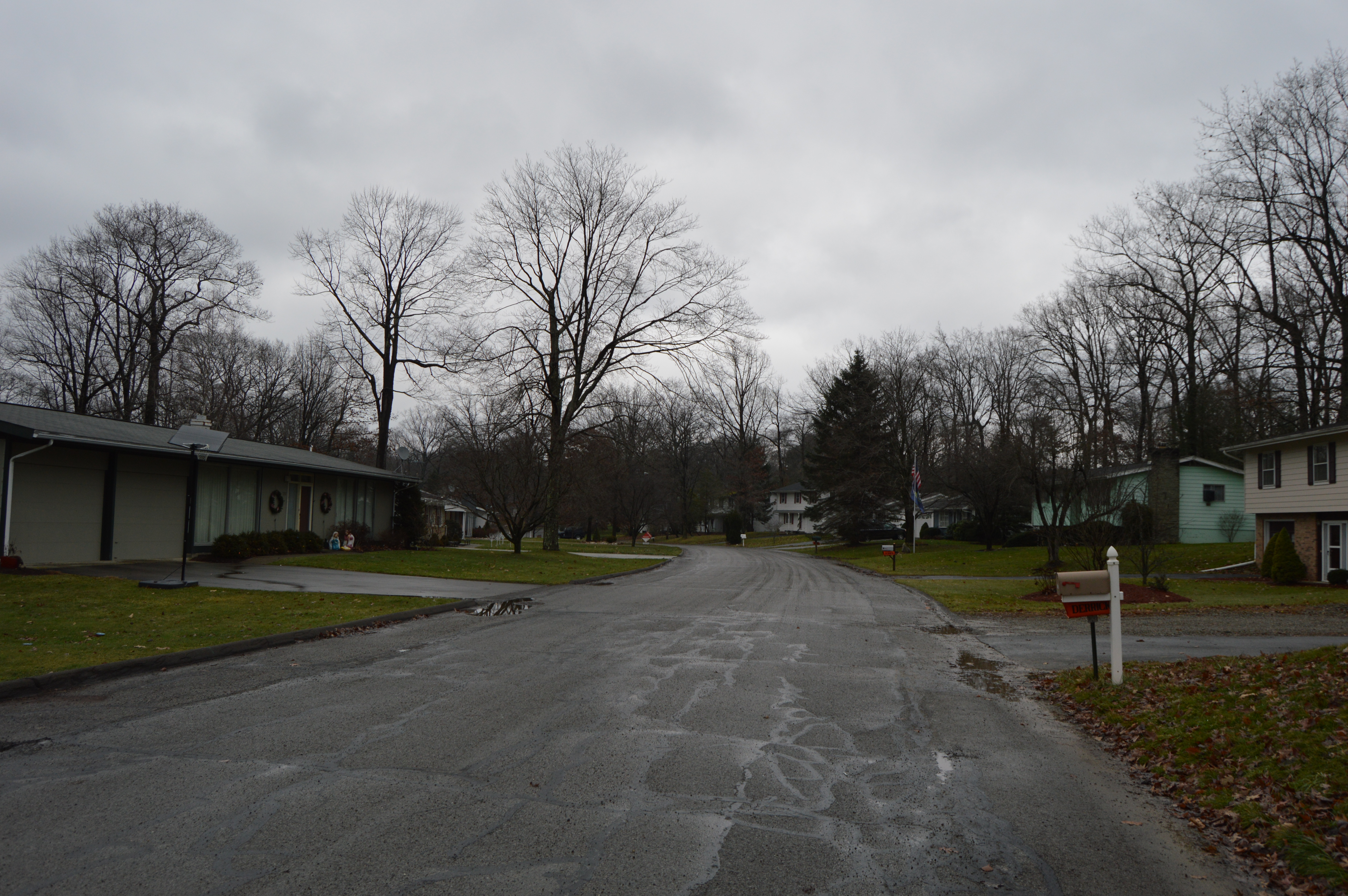 Looking east along Crestmont Drive at Marianne in Paint Township, Clarion County, Pennsylvania, United States.